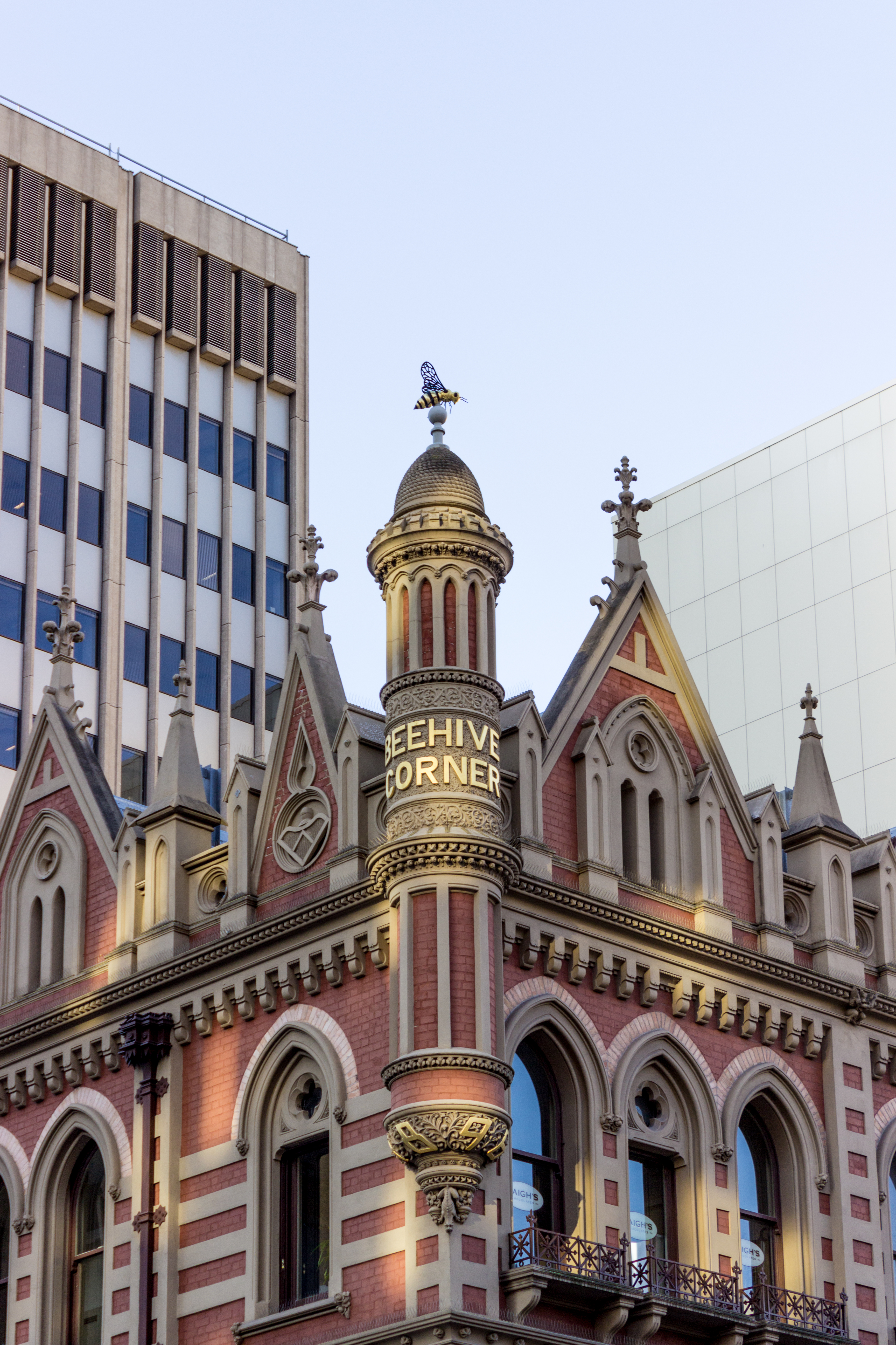 Beehive Corner, Adelaide city centre